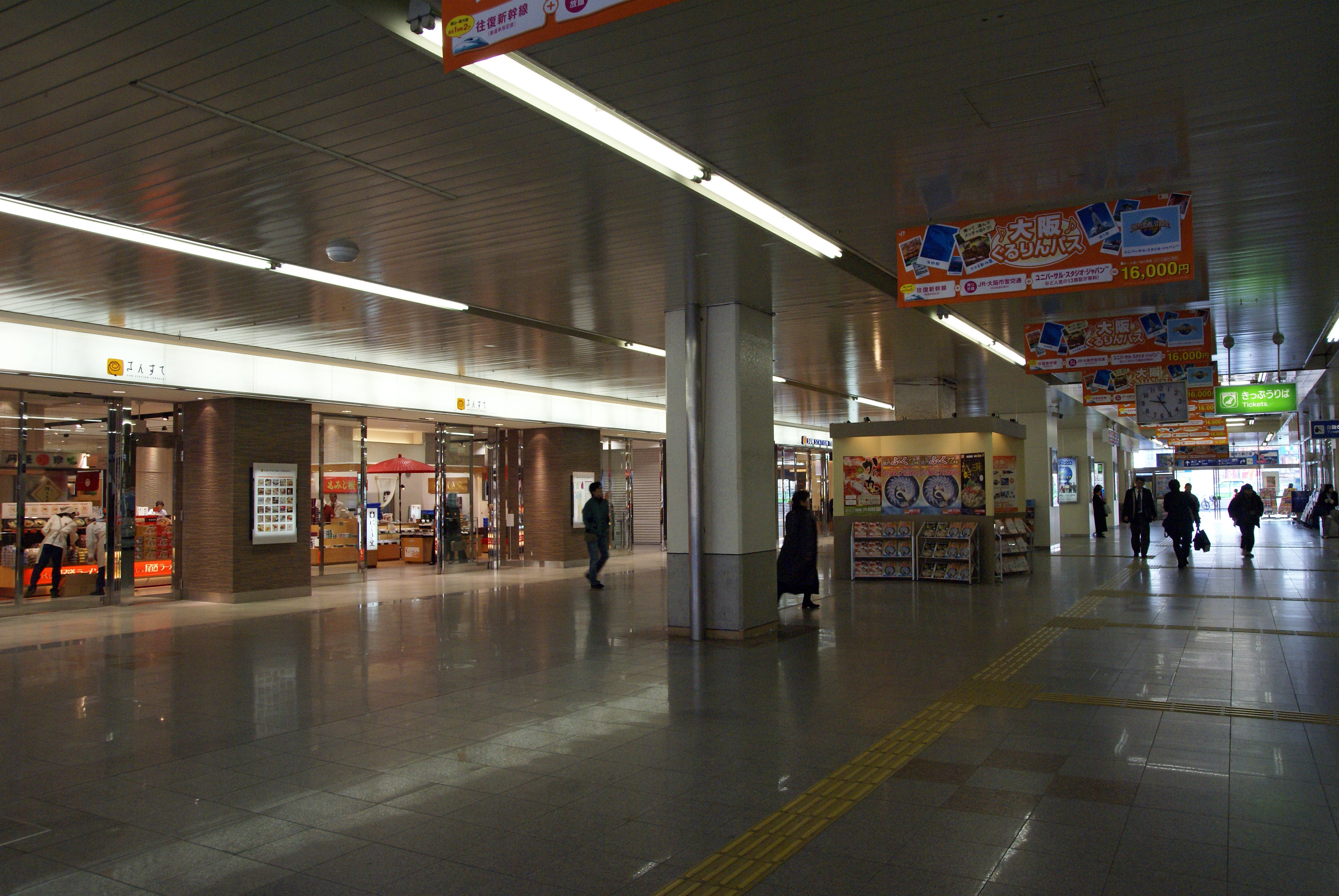 Fukuyama Station in Fukuyama, Hiroshima prefecture, Japan